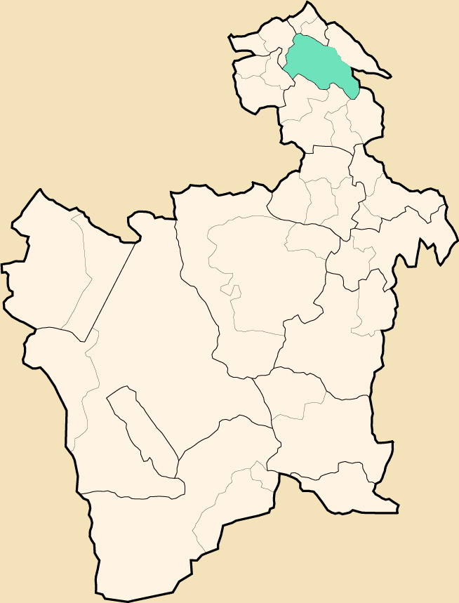 San Pedro de Buena Vista Municipality, Potosí Department